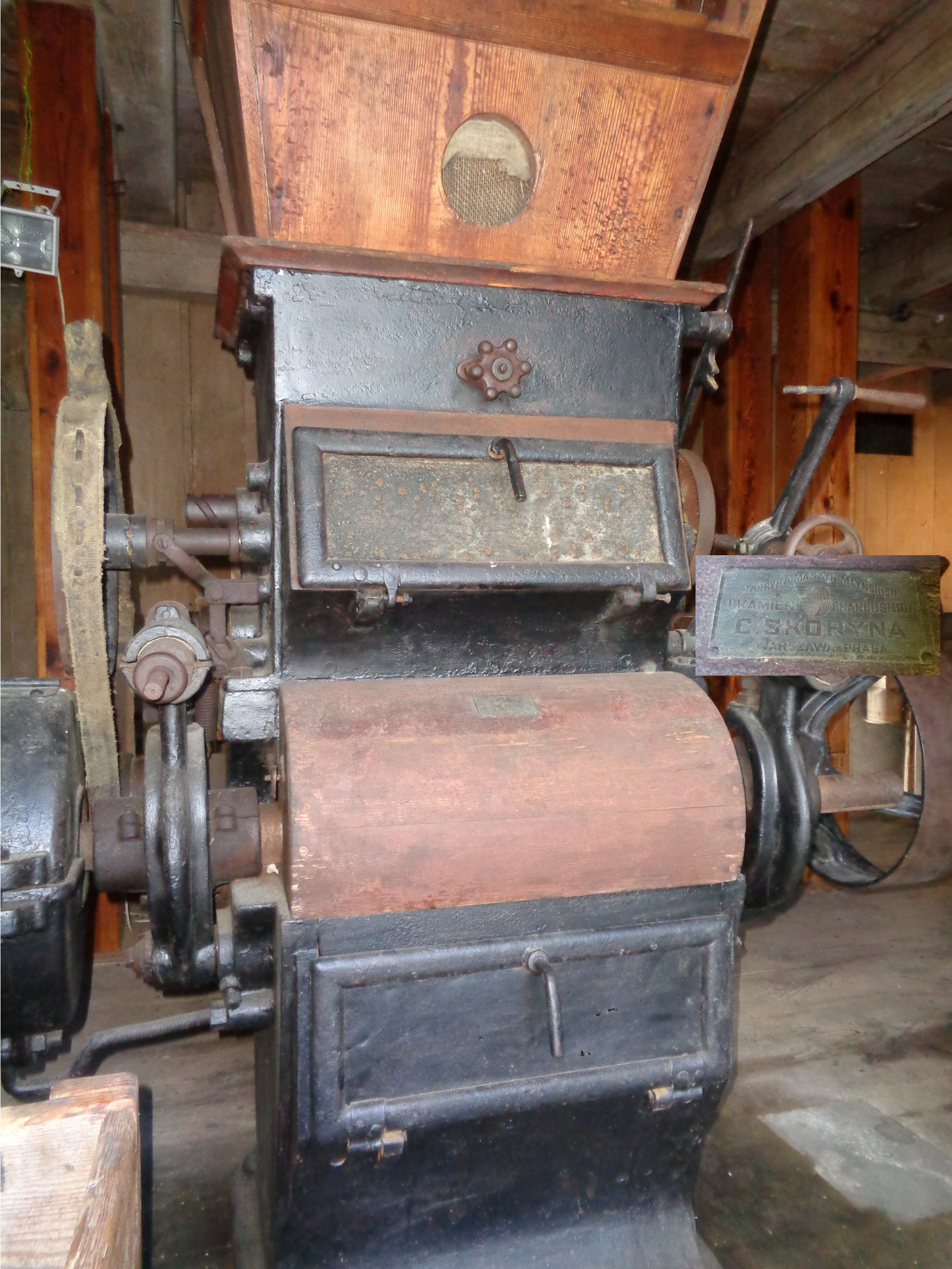 Grinding machine in a "Nowość" mill in Niegów, produced by C. Skoryna, with enlarged nameplate